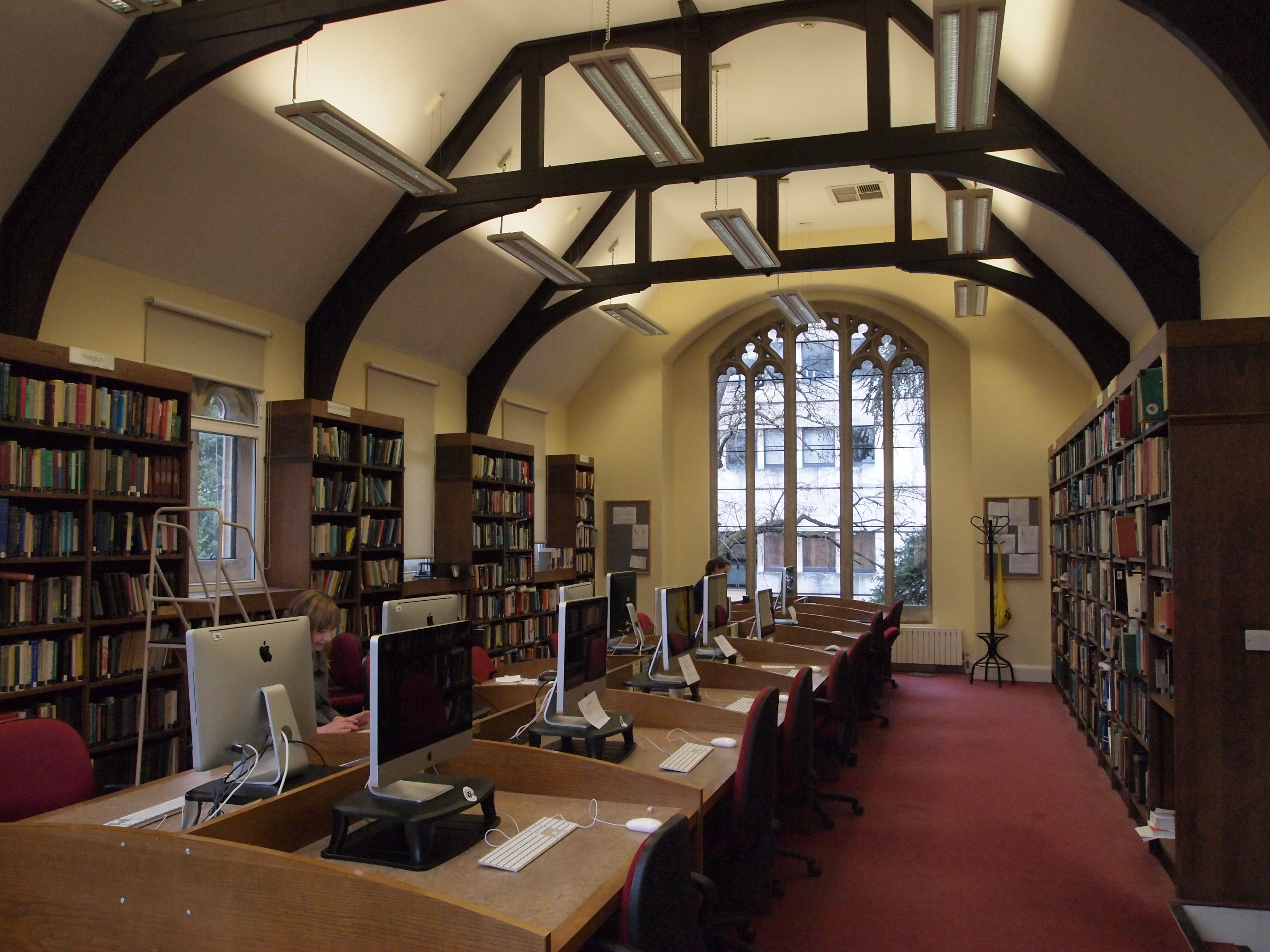 The library of Linacre College, photographed in February 2012.